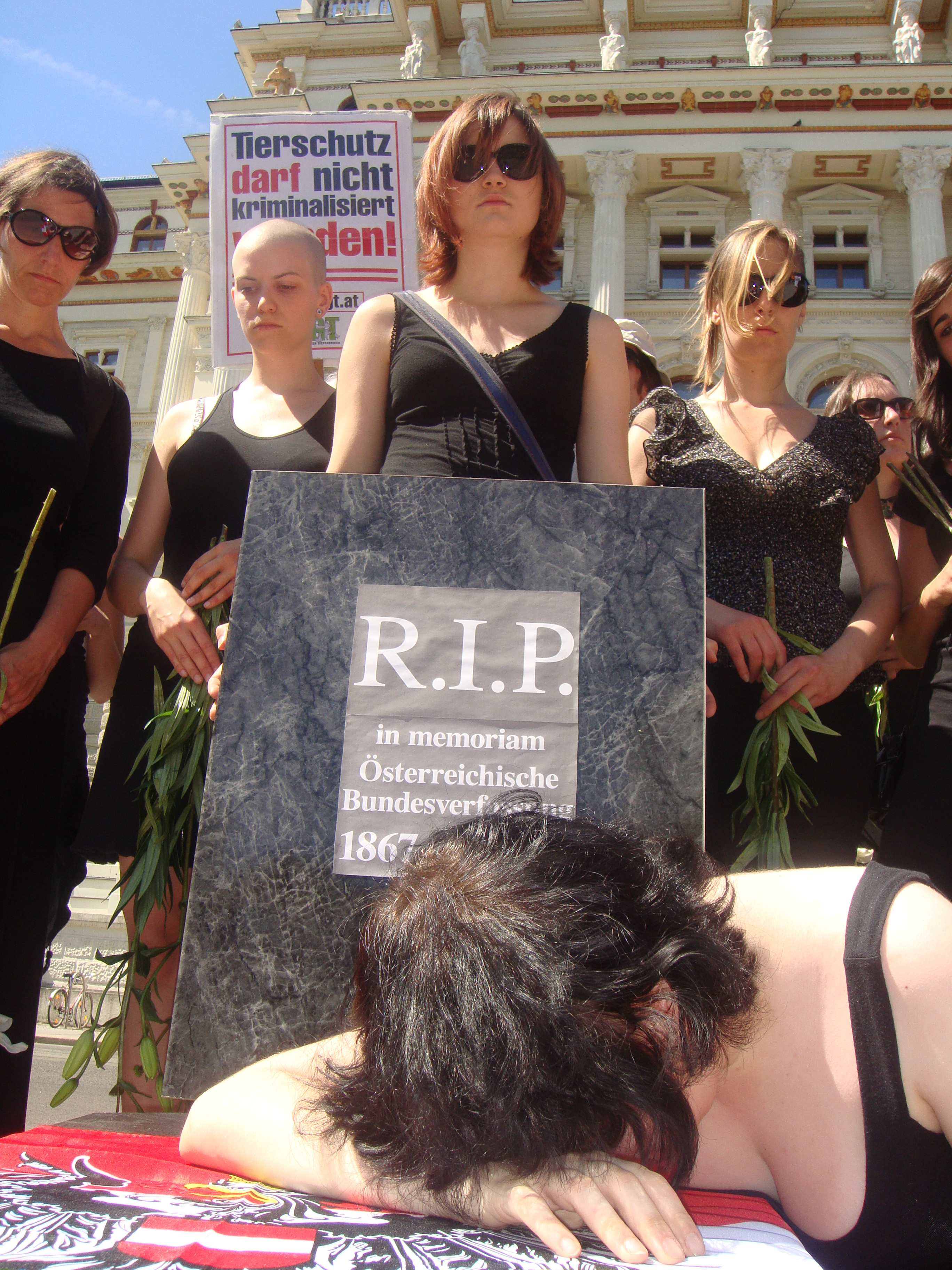 Demonstration: Symbolic burying of the Austrian constitution because of the (alleged) misuse of § 278a criminal code against animal rights activists.